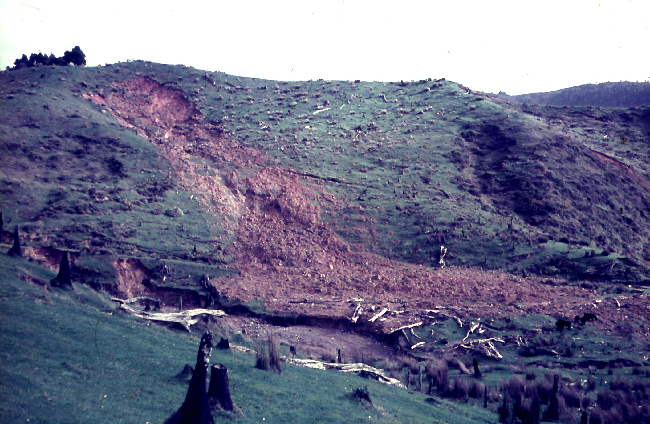 Debris avalanche in Auckland region in New Zealand. Credit: Colin Pain (distributed via ).